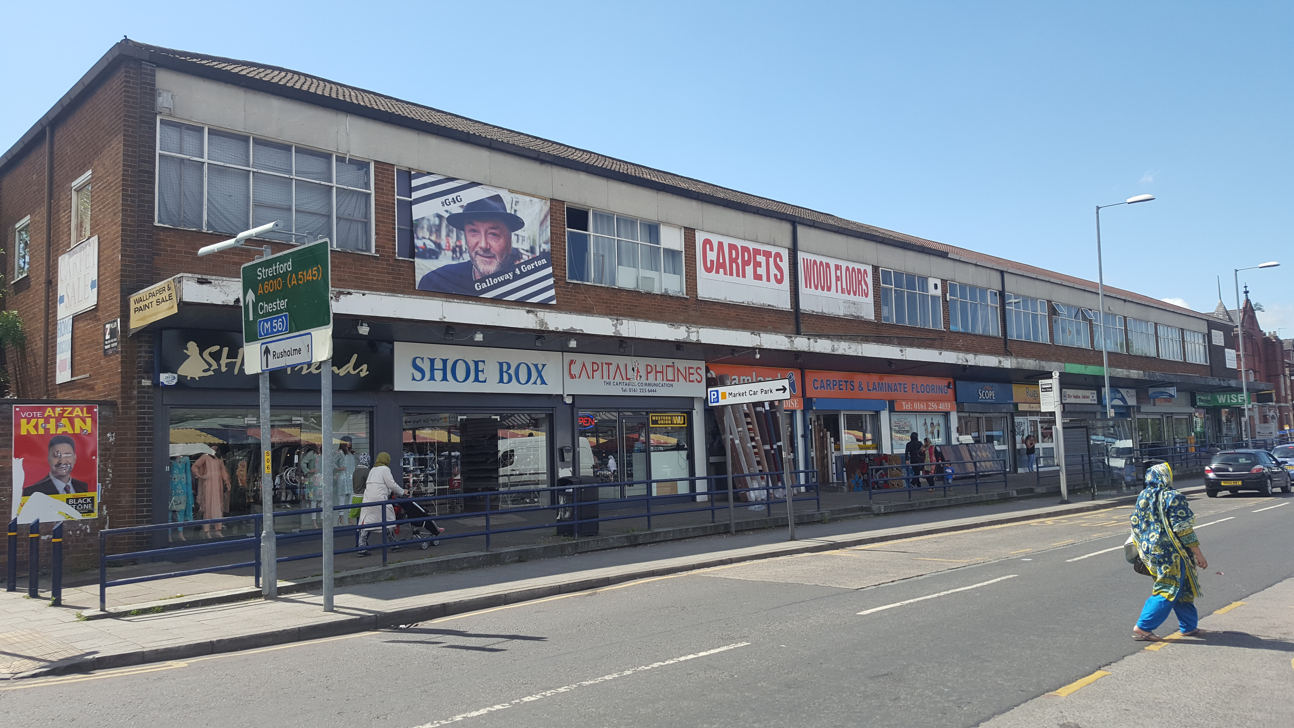 George Galloway poster in Longsight for Gorton by-election